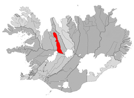 Based on Municipalities of Iceland.png.